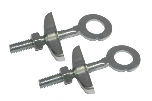 a pair of chain tensioners for bicycles with horizontal dropouts